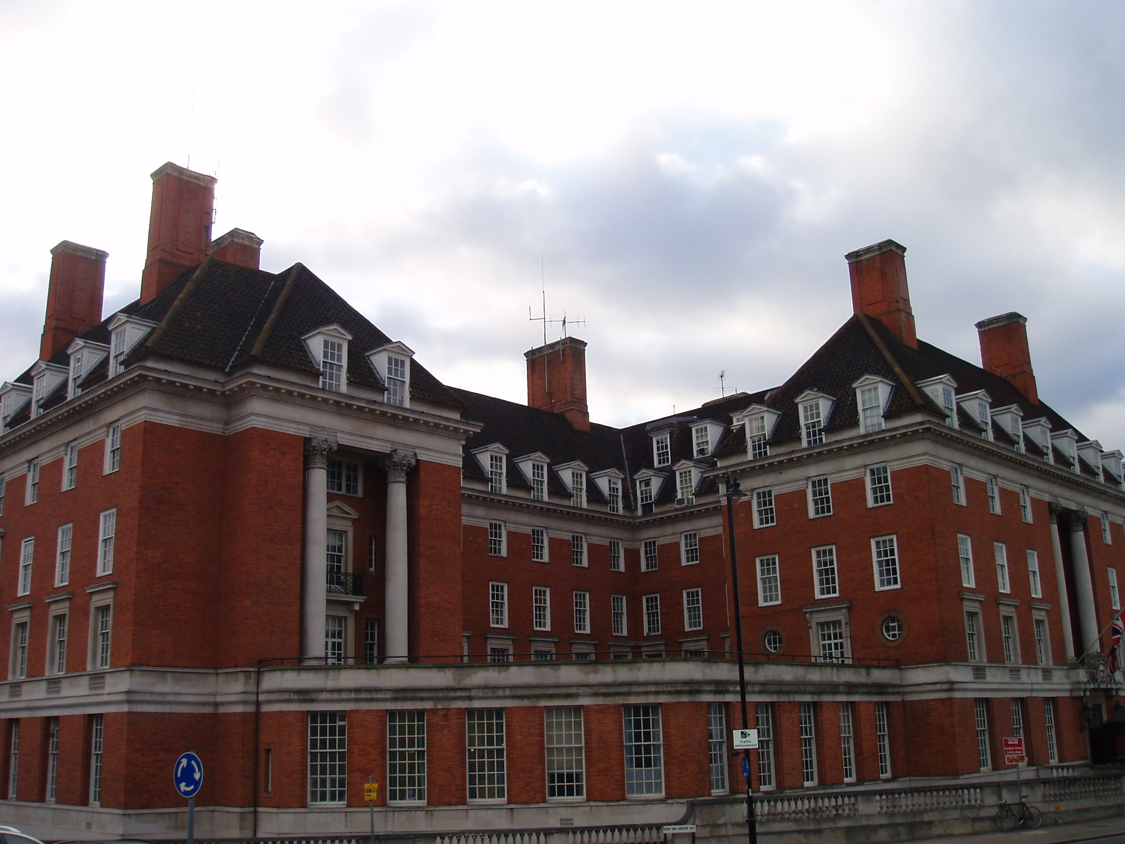 Star and Garter Home, Richmond, London, UK. 11/03/2010.